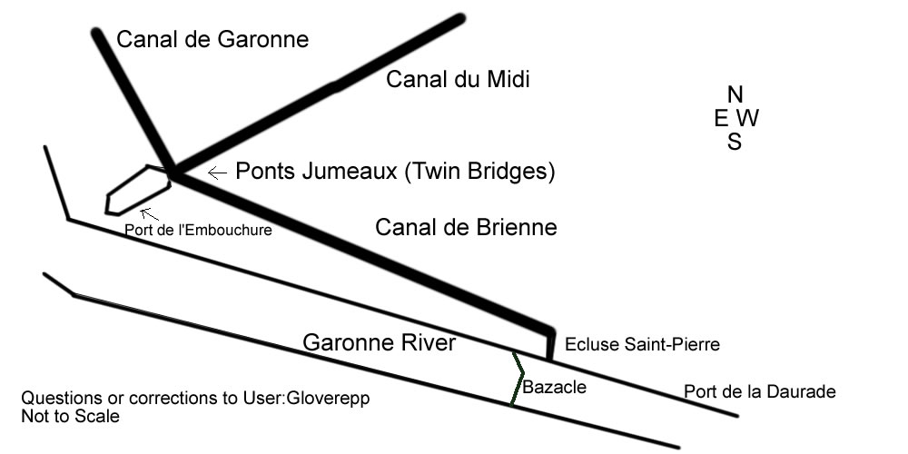 A drawing showing the Canal de Brienne, Canal du Midi, Canal du Garonne as they merge together near the Garonne River. Let me know about any corrections required. It is NOT to scale.